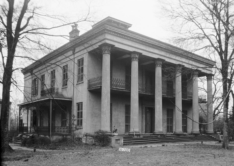 Watts-Parkman-Gillman House; now known as Sturdivant Hall (FRONT VIEW) — 713 Mabry Street, Selma, Dallas County, Alabama. 1934 HABS—Historic American Buildings Survey of Alabama image. HABS ALA, 24-SEL,1-1.